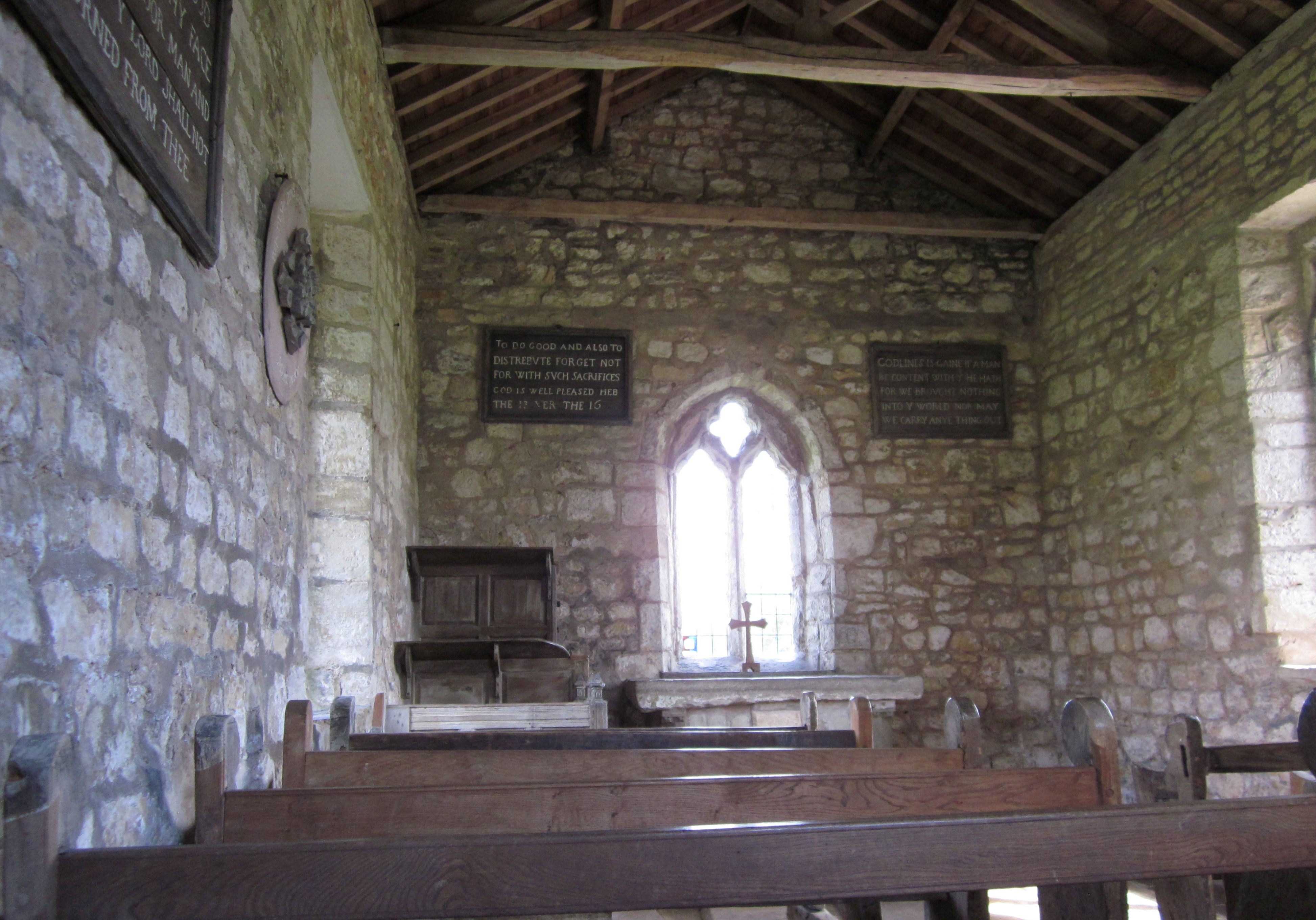 Inside St Mary's Church, Lead, North Yorkshire, England, looking east to the Decorated Gothic east window (14th century), three-decker pulpit (18th century), altar, benches (late Mediaeval), roof tie-beams (18th century) and biblical quotations (uncertain, but re-painted)